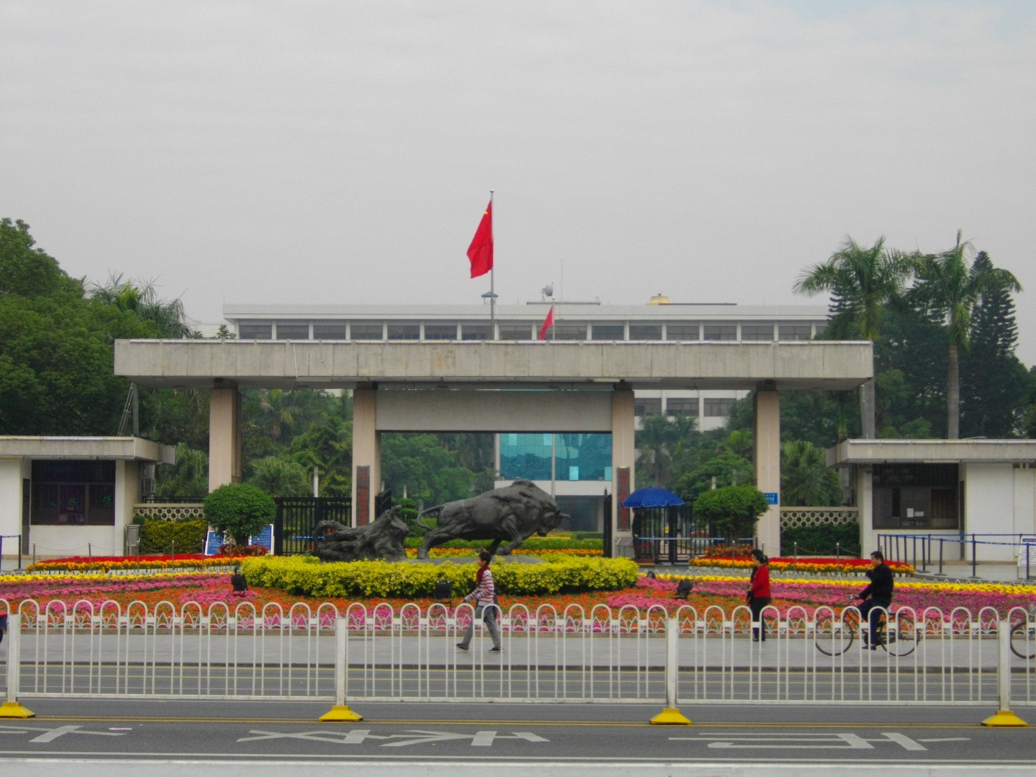 Shenzhen Municipal Committee of the CPC(Communist Party of China)